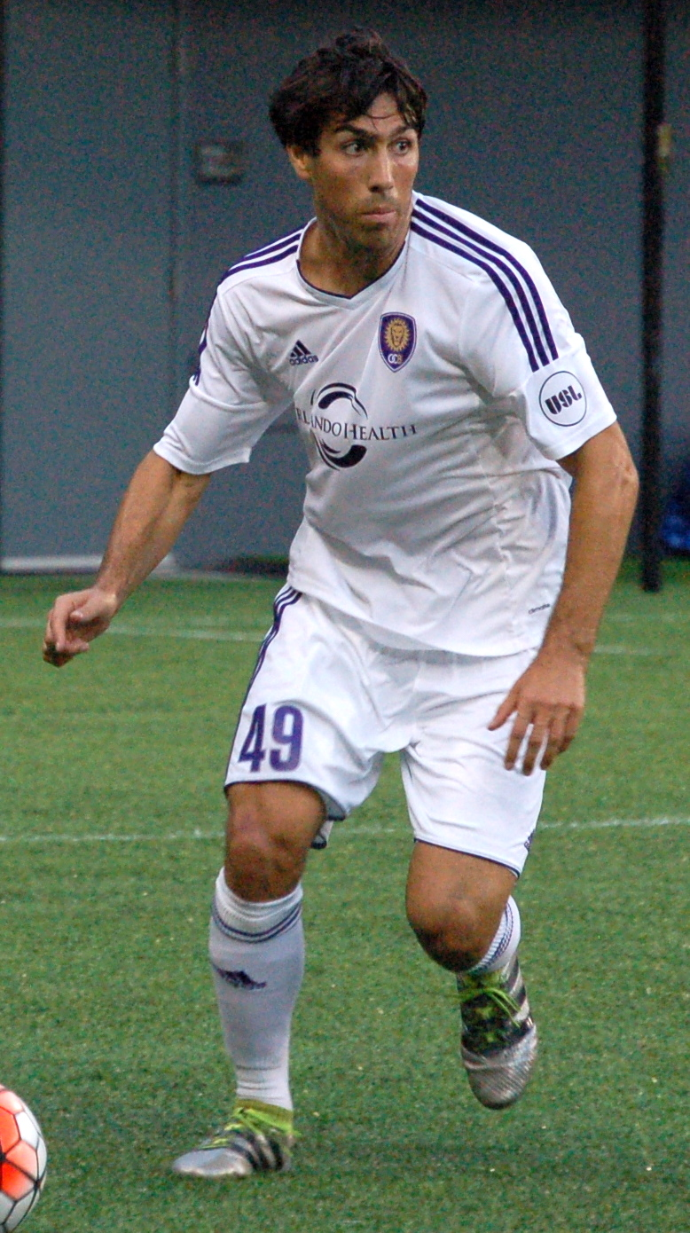 Andrew Ribeiro Taken during USL regular season match between FC Cincinnati and Orlando City B at Nippert Stadium in Cincinnati, USA on September 17, 2016.